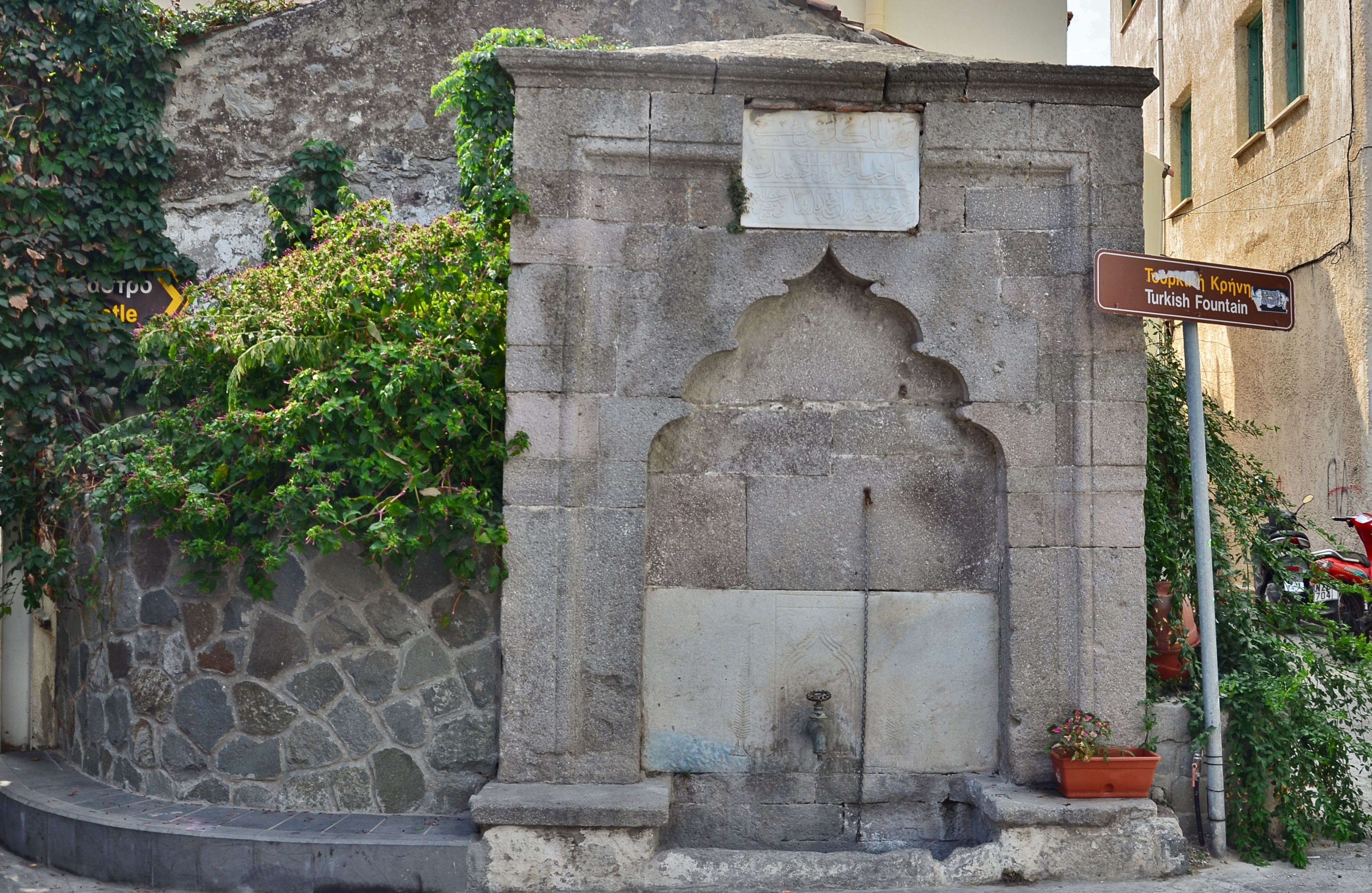 Fountain in Myrina, Lemnos, Greece